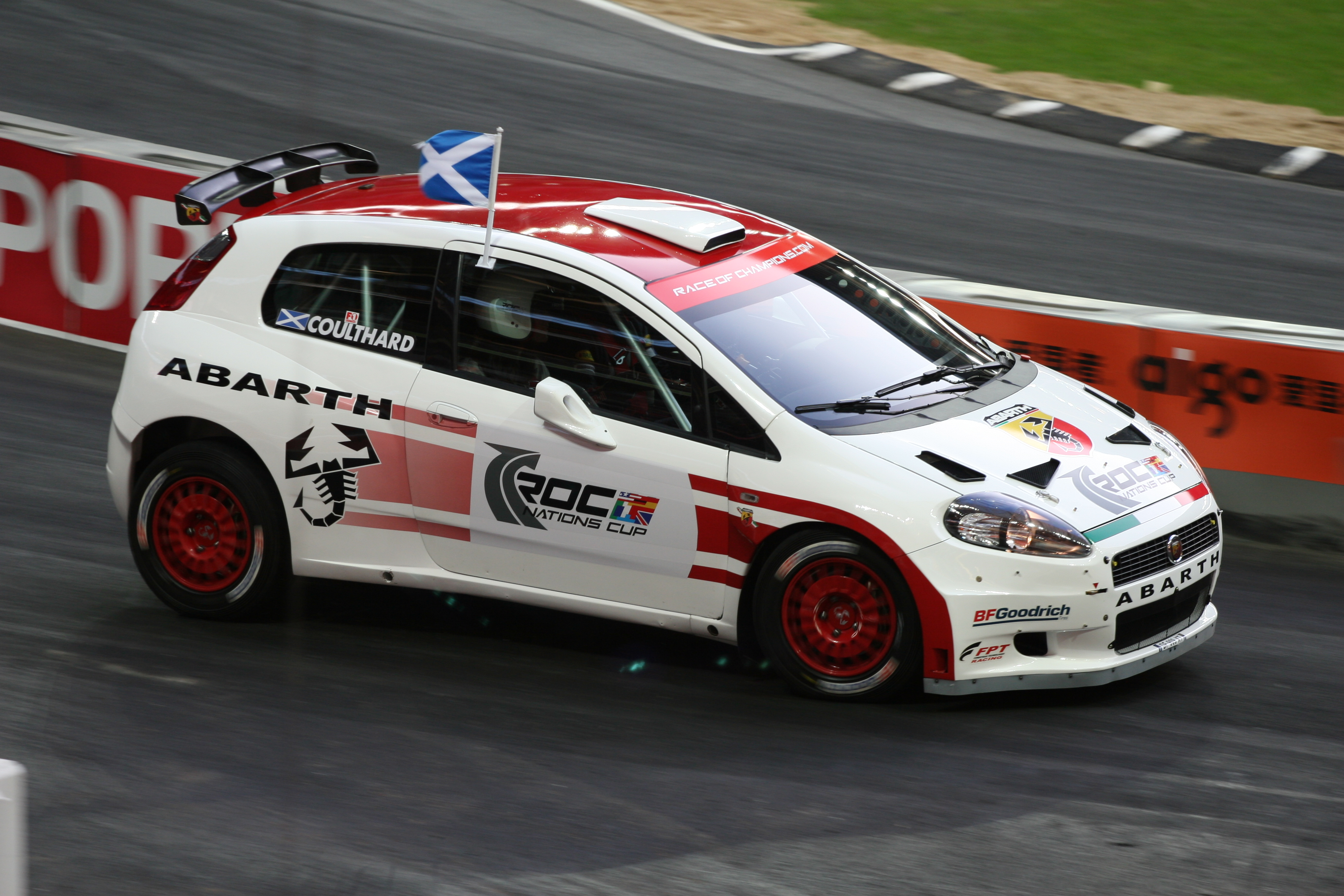 David Coulthard driving a Fiat Grande Punto S2000 Abarth at the 2007 Race of Champions at Wembley Stadium.